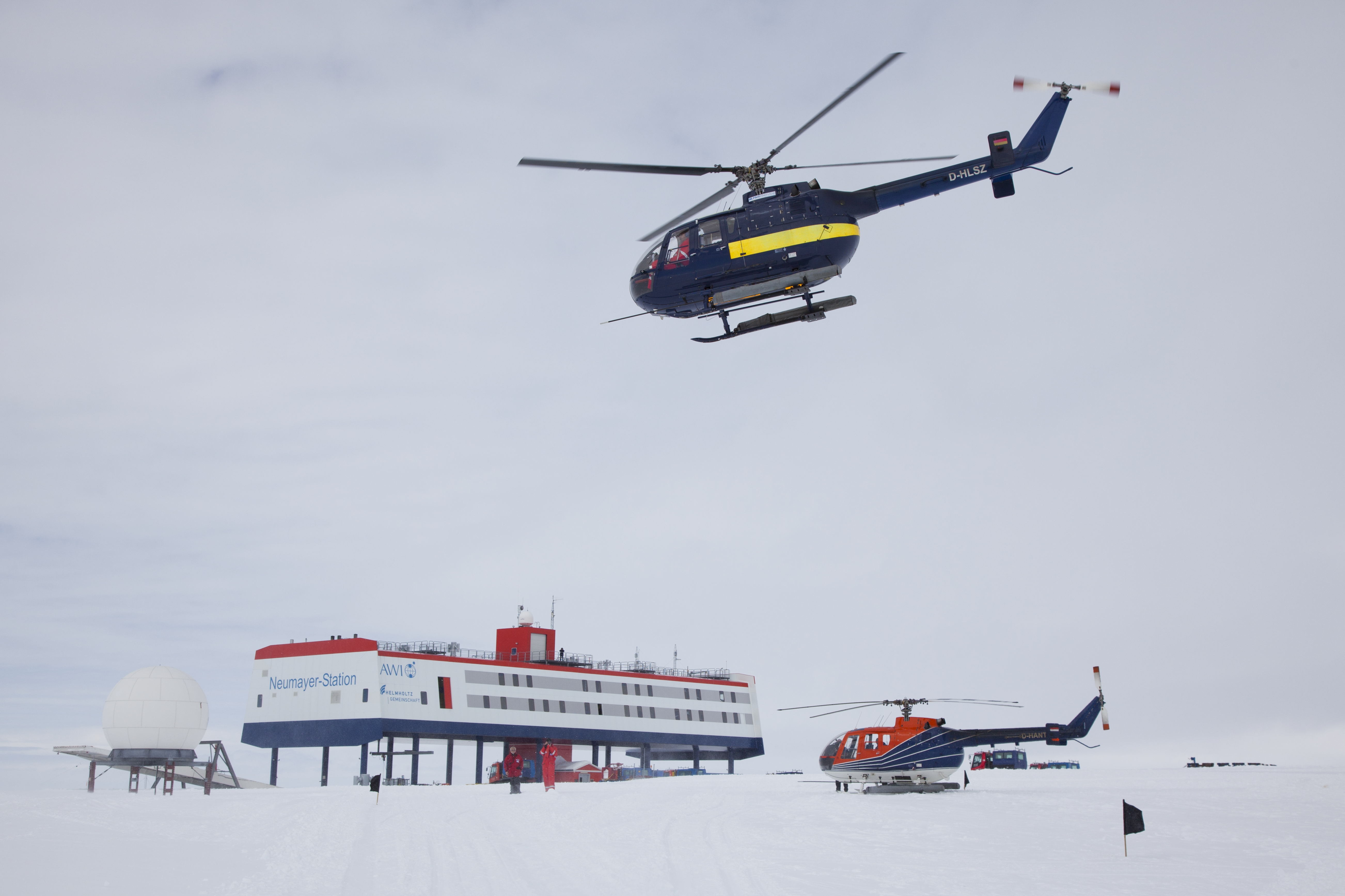 Helicopters from FS Polarstern shuttling guests from the ship to Neumayer Station. Later in the day, one chopper D-HANT (on the ground in this photo) was written off after a hard landing in white out conditions. The other chopper D-HLSZ (in the air in this photo) was also written off when it too hard landed in white out conditions whilst returning to the hard-landed D-HANT.